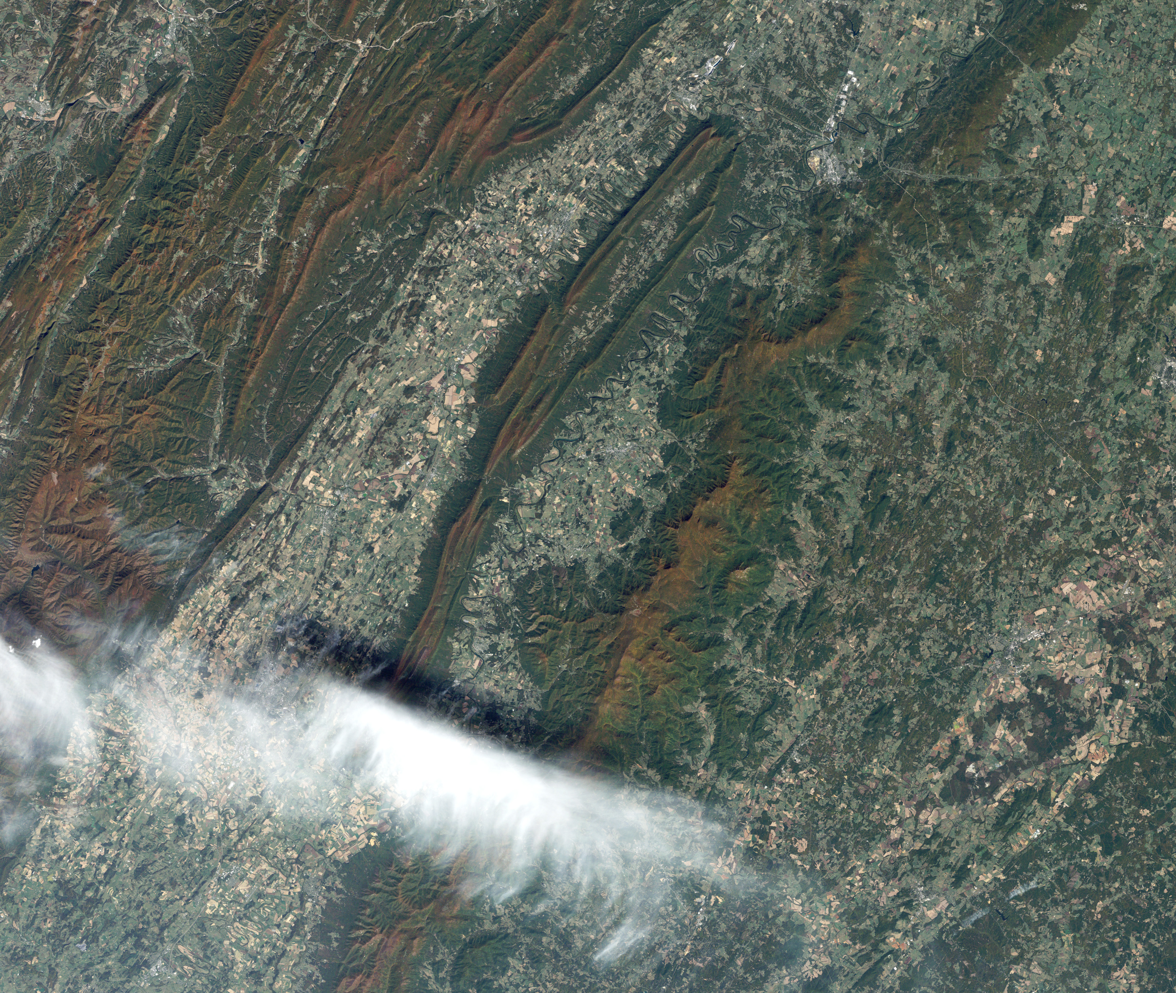 View of the heart of Shenandoah National Park at the height of the fall “leaf-peeping” season. The orange and brown swath across the image highlights the hilly backbone of the park, where leaves had turned to their fall colours. The 169-kilometre Skyline Drive that meanders across the crest of the ridge is often jammed with tourists in autumn. The long, narrow park in the Blue Ridge Mountains spans more than 179,000 acres, with 40 percent of the land protected as wilderness.